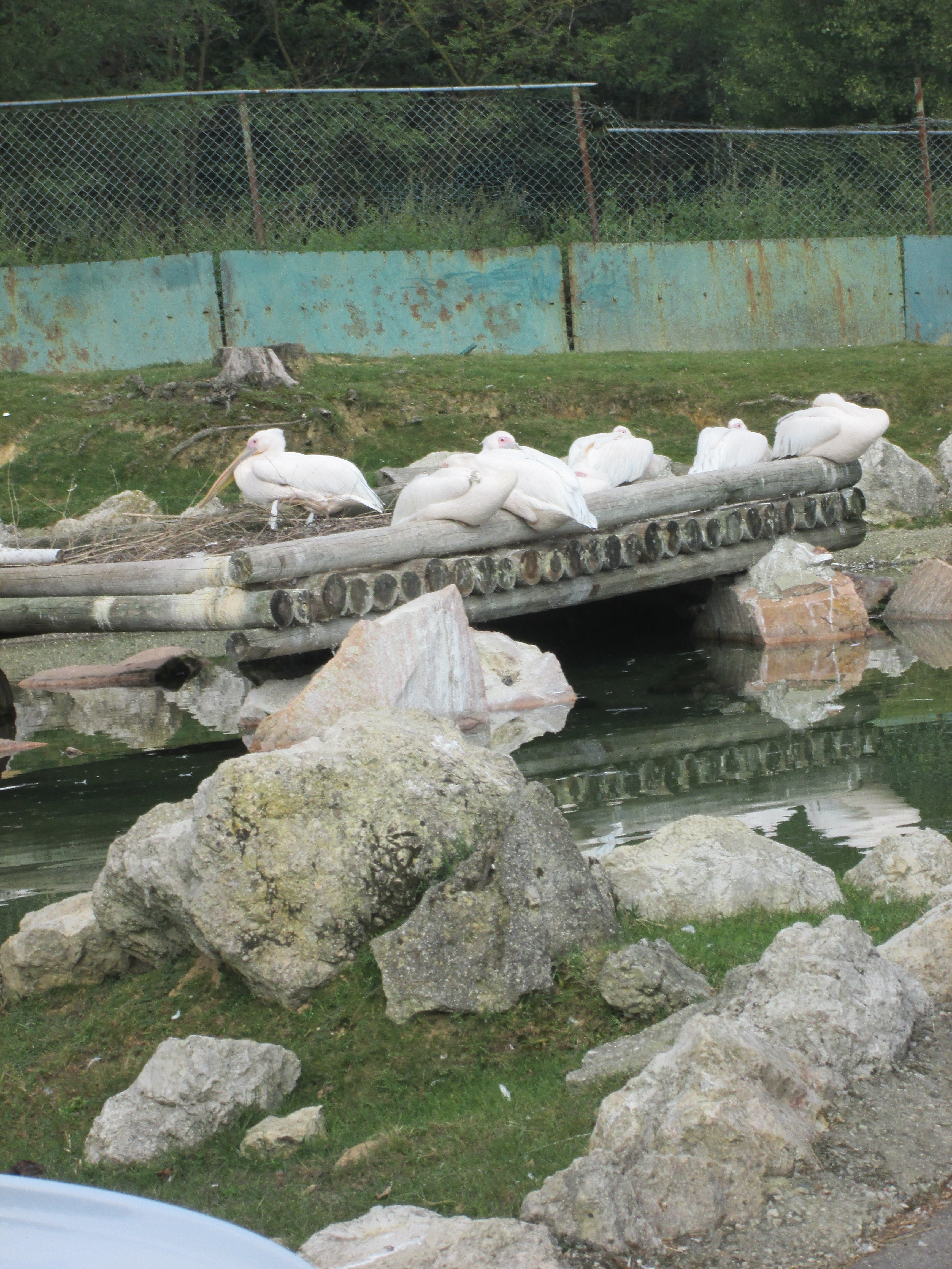 Pelecanus onocrotalus in Pombia Safari Park ITALY